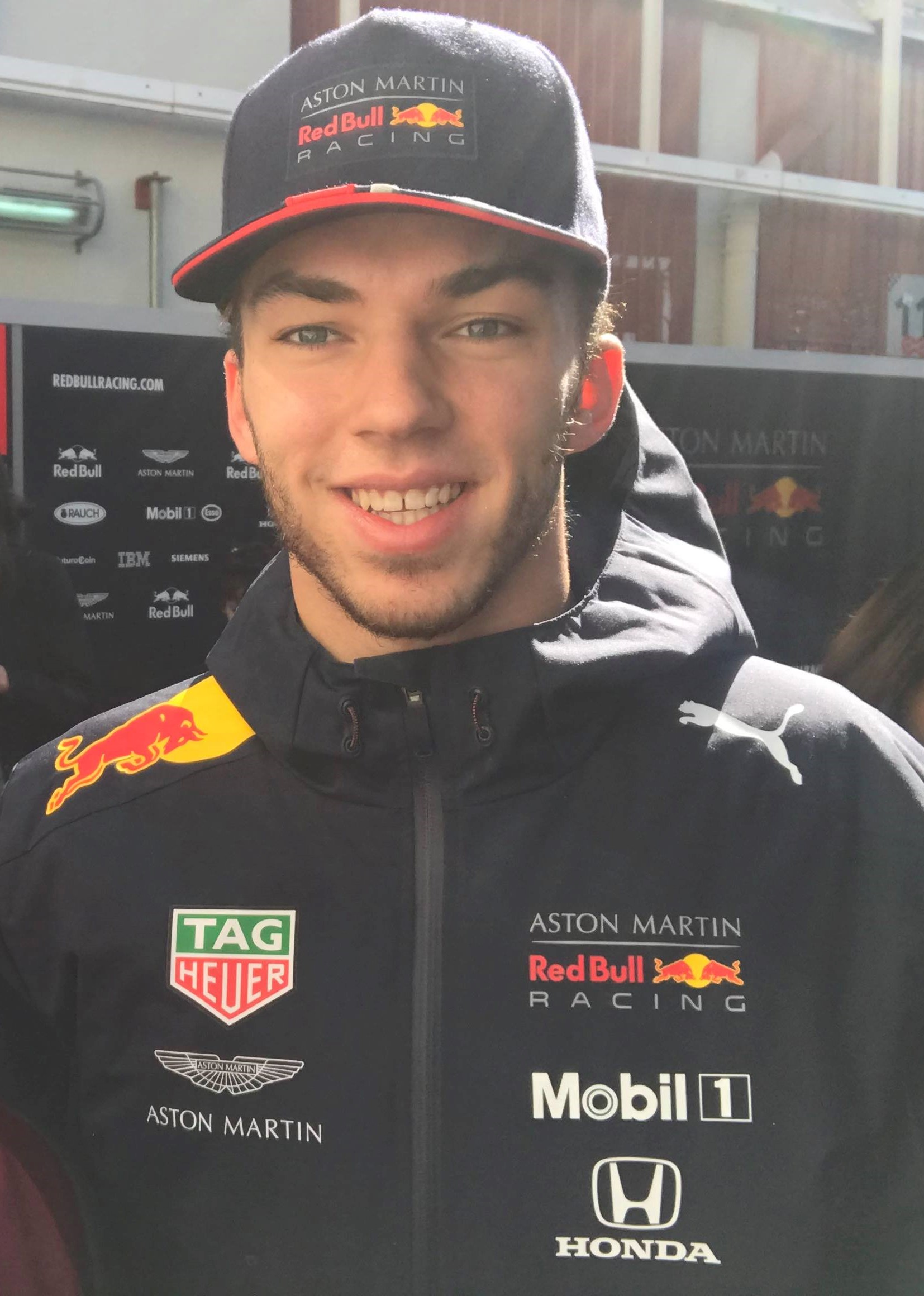 2019 Formula One tests Barcelona, Gasly.